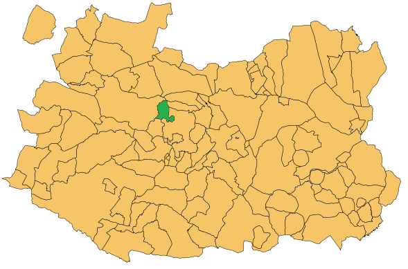 Picón